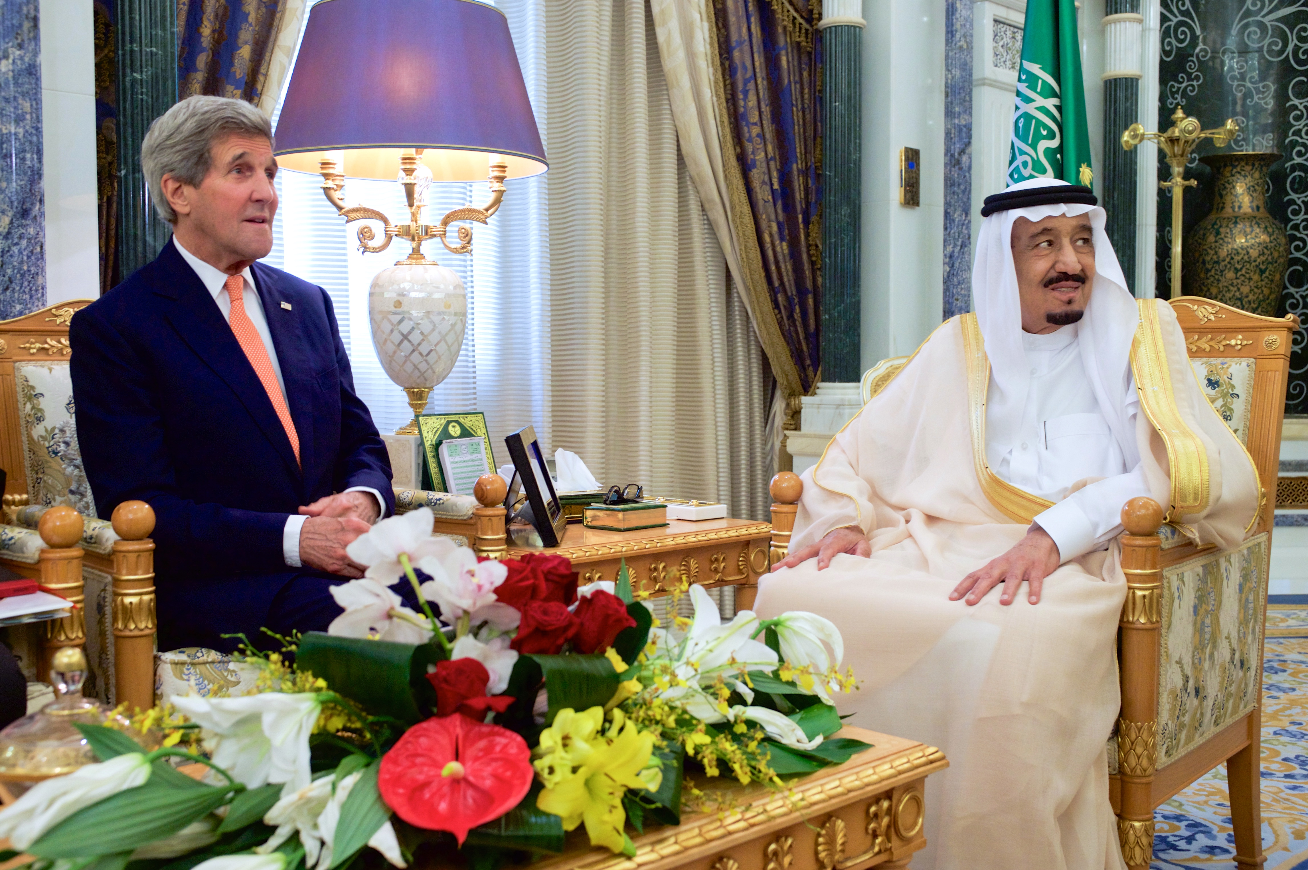 U.S. Secretary of State John Kerry with King Salman bin Abdelaziz Al Saud of Saudi before a bilateral meeting at the Royal Court in Riyadh, Saudi Arabia, on May 7, 2015. [State Department photo/ Public Domain]